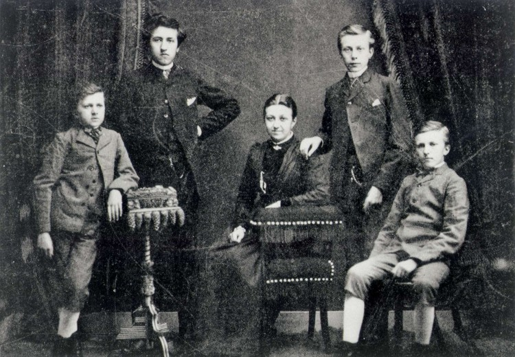 Anonymous. piet Mondrian original name is Pieter cornilius mondian Piet Mondriaan with his brothers and sister [from left to right: Carel (1880-1956), Pieter Cornelius (Piet), Johanna Christina (1870-1939), Willem Frederik (1874-1945), Louis (1877-1943)]. 1890. Photo. Location unknown.